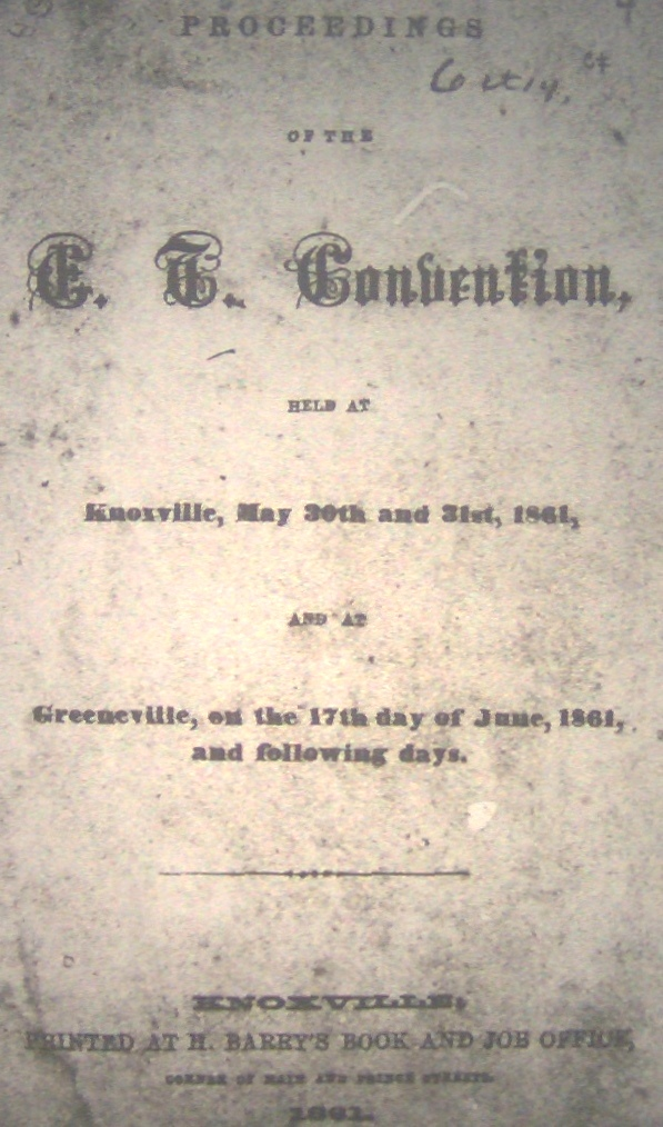 Front page of the "Proceedings of the East Tennessee Convention", published in 1861. The convention consisted of 29 East Tennessee counties and one Middle Tennessee county which met to denounce secession activities within the state and request that the Tennessee state government allow them to form a separate state that would remain part of the U.S.